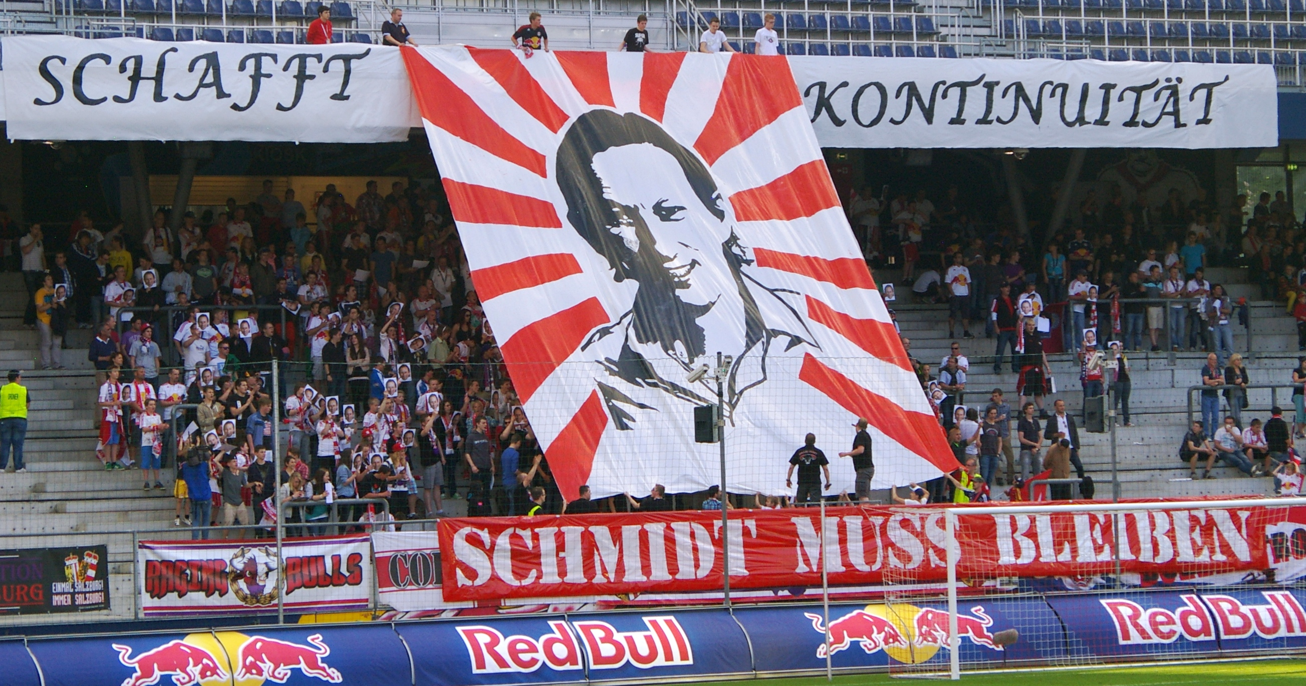 league match